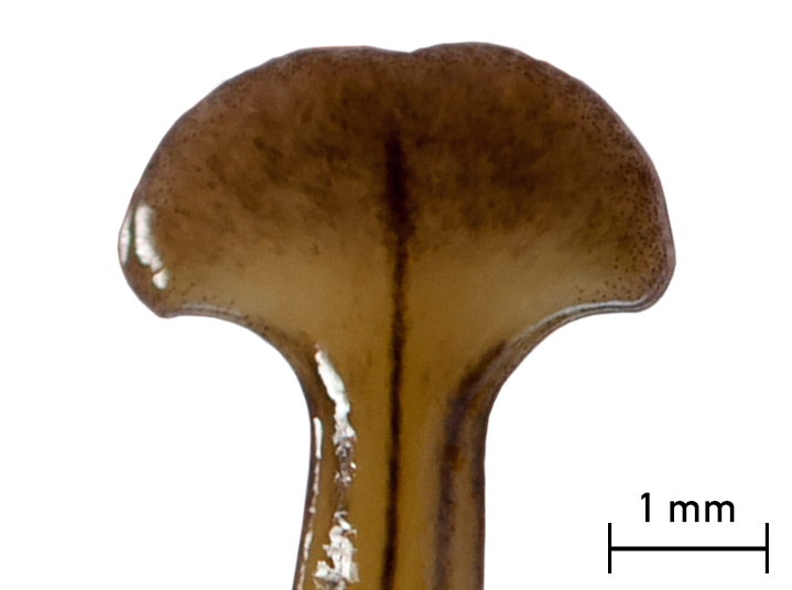 Diversibipalium multilineatum. Photo L. Cavigioli Figure 1b of paper. A specimen of Diversibipalium multilineatum (Makino & Shirasawa, 1983) collected from a private garden in Bologna (Italy). Figure 1b: Head, dorsal view.